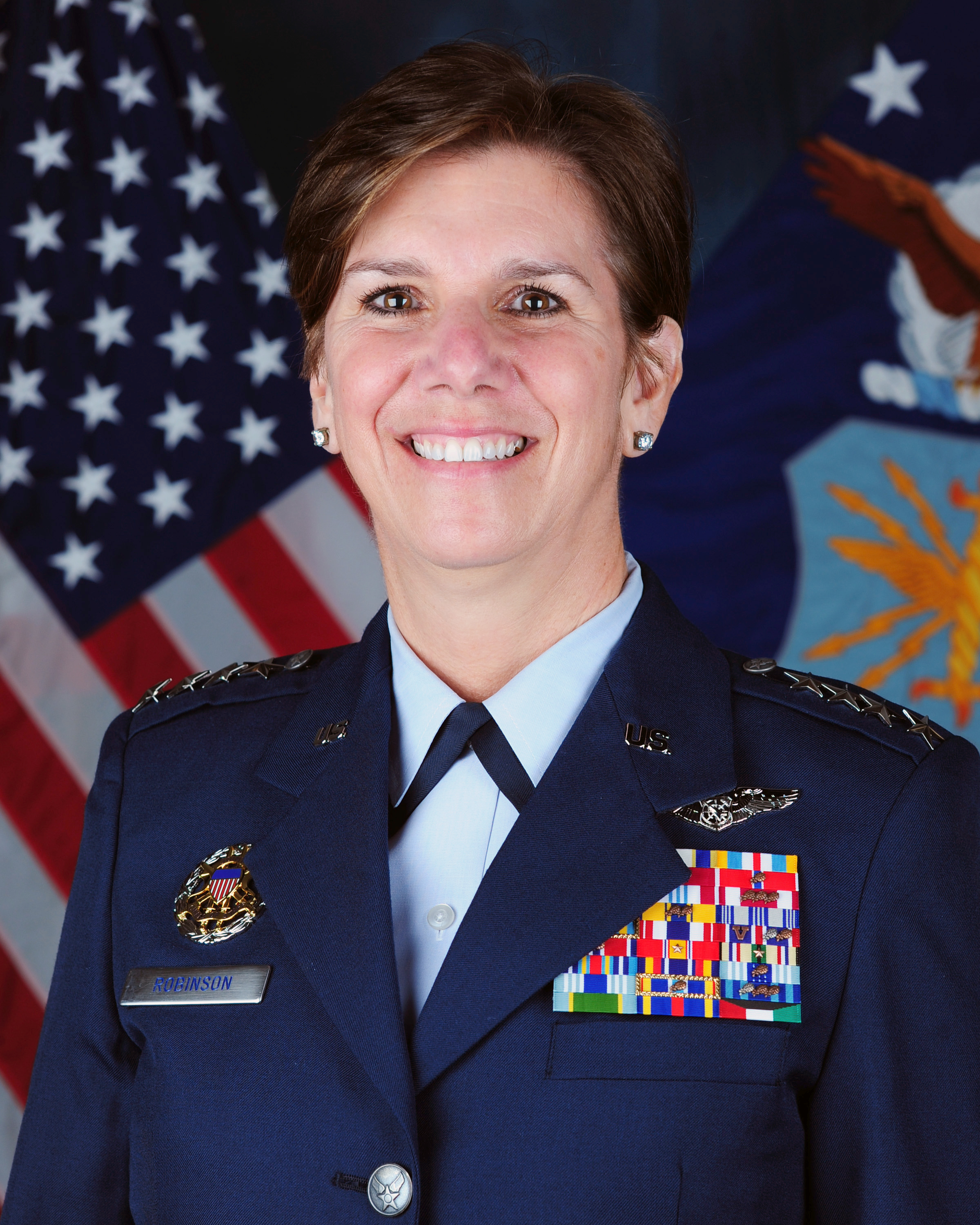 General Lori J. Robinson, USAFCommander, Pacific Air Forces (PACAF),Air Component Commander for United States Pacific Command (USPACOM) andExecutive Director, Pacific Air Combat Operations Staff (PACOPS)